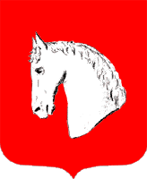 Coat of arms of Balti judet